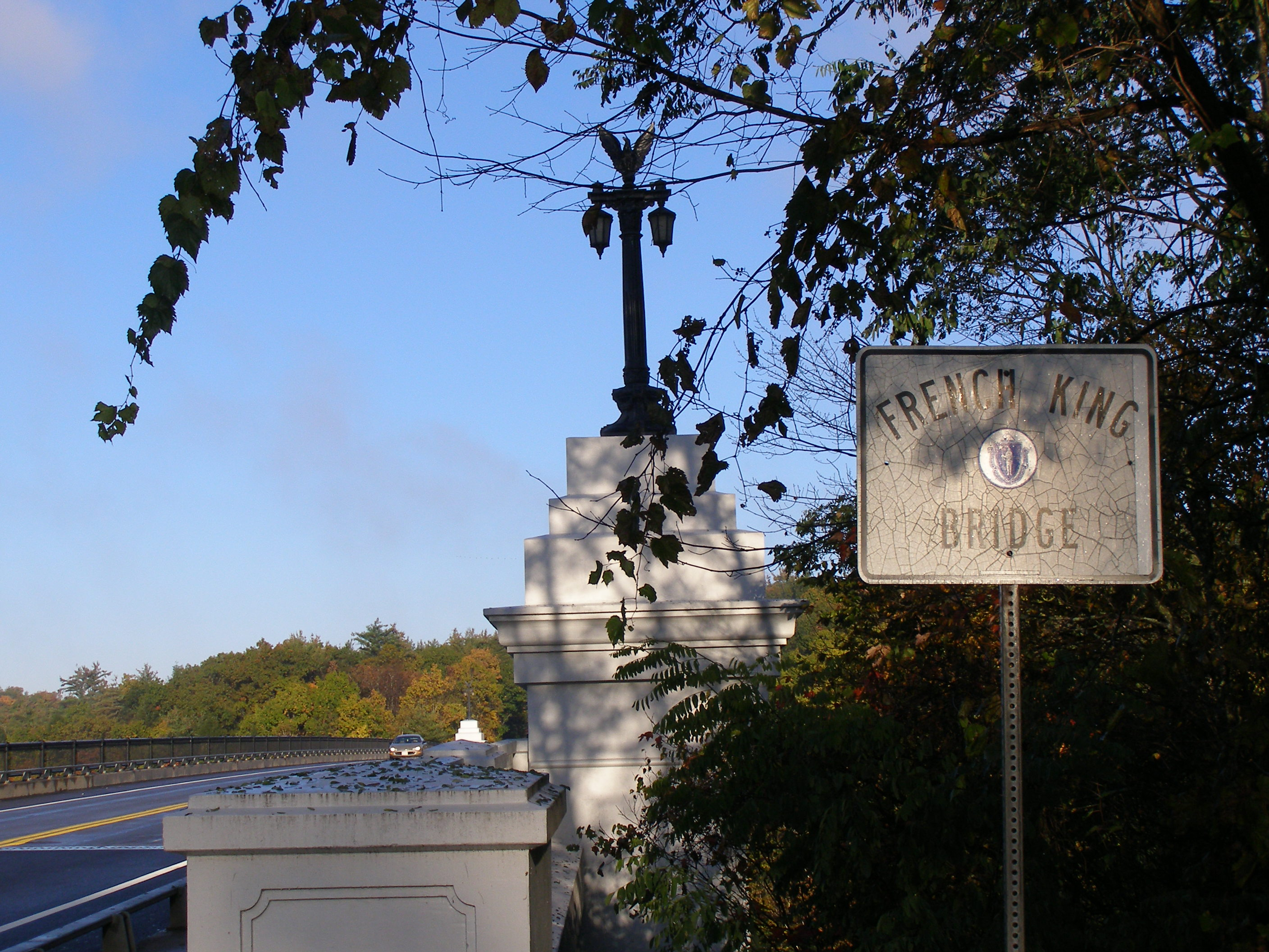 French king Bridge over the Connecticut River, Mohawk trail, Massachusetts